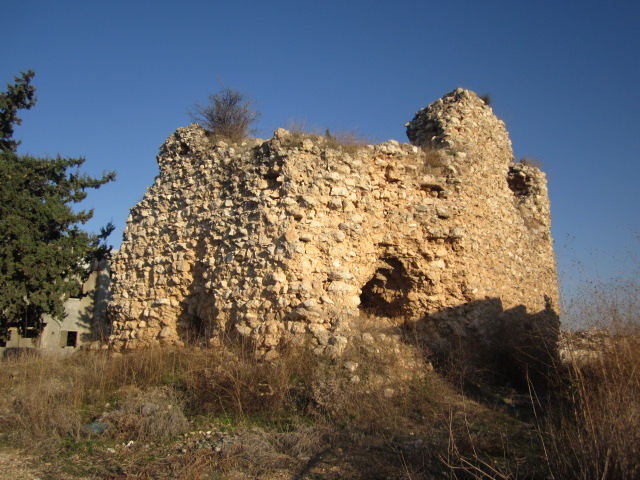 ancient tower in shfaram